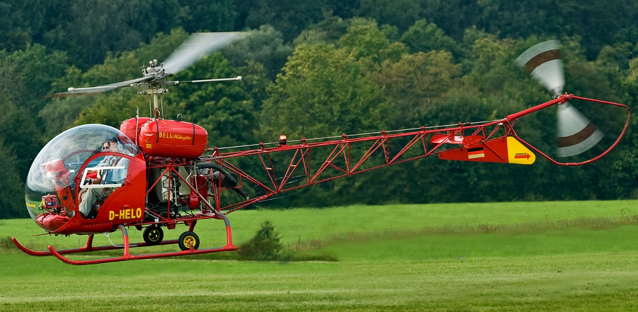 Helicopter Bell 47, fotografiert bei der "OTT" 2011. Am Flugfeld Hahnweide, Germany.